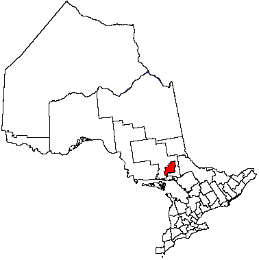 Greater Sudbury Division, Ontario